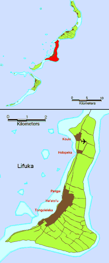 map of Lifuka Island, Tonga, Pacific Ocean